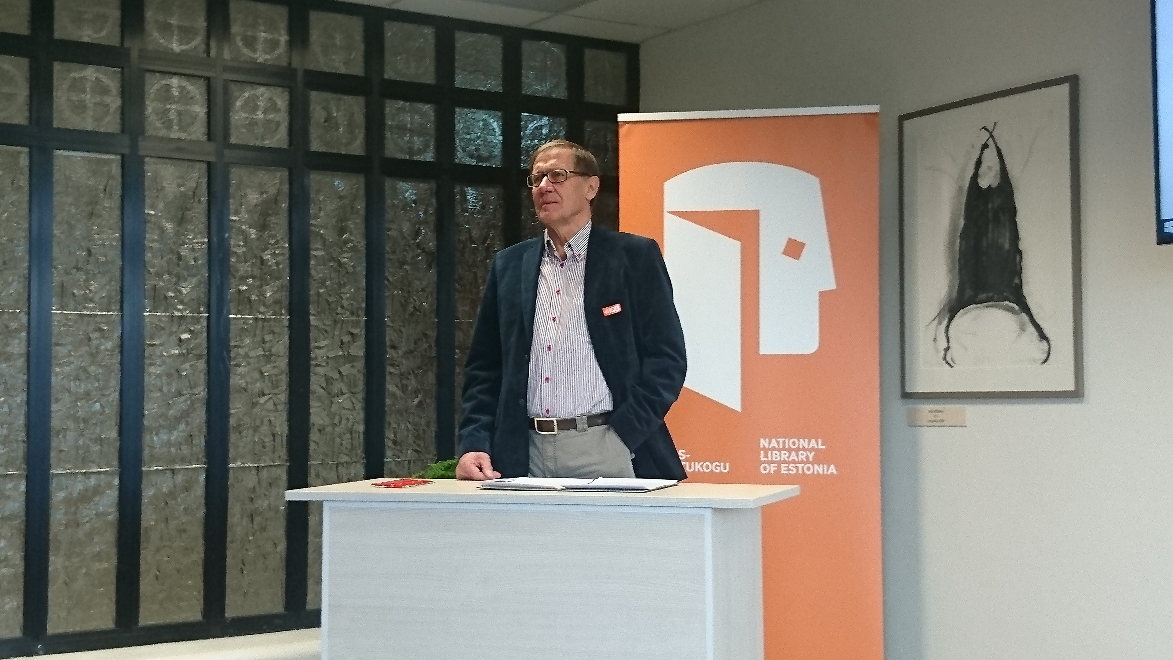 Public Domain Manifesto signing and exhibition in Estonian National Library, Oct 19, 2017. Speaker: Andres Kollist, director of the Academic Library of Tallinn University.